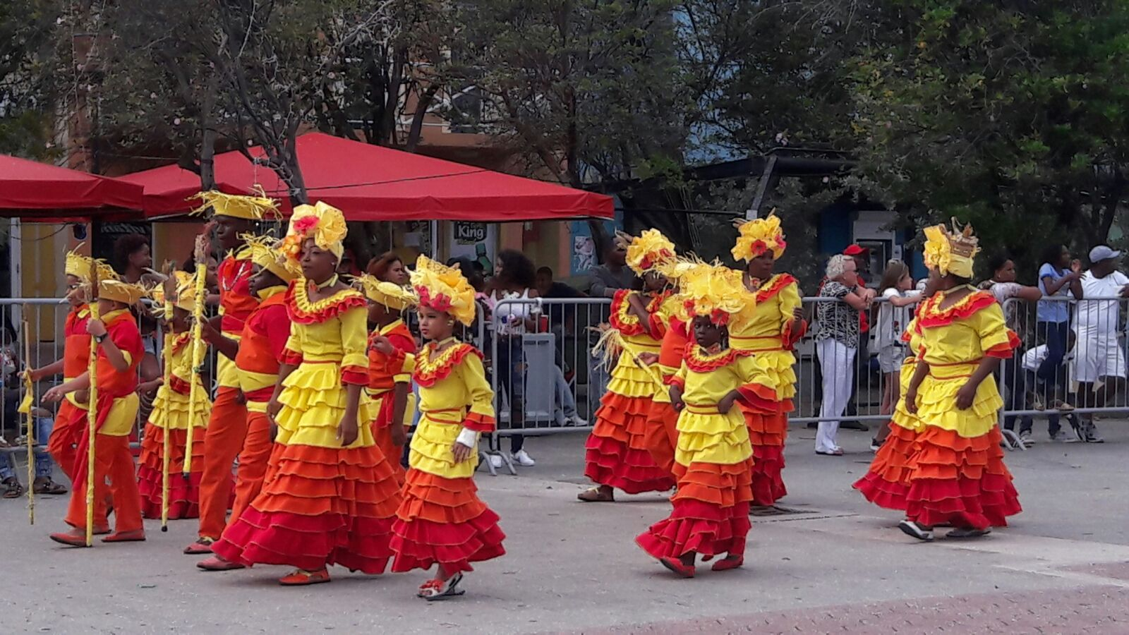 Celebration of seú (harvest ceremony) in Curaçao